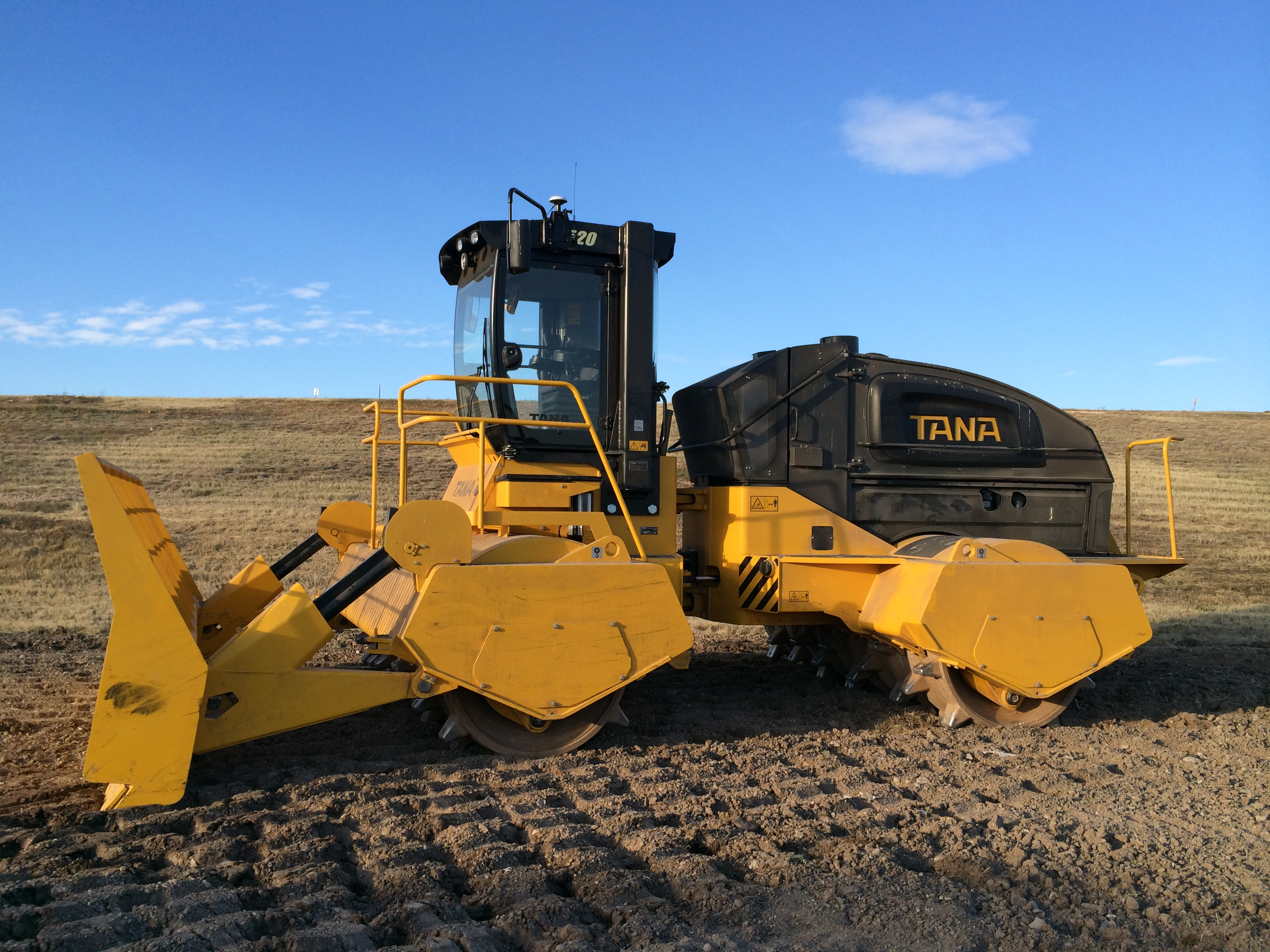 TANA Landfill Compactor E520